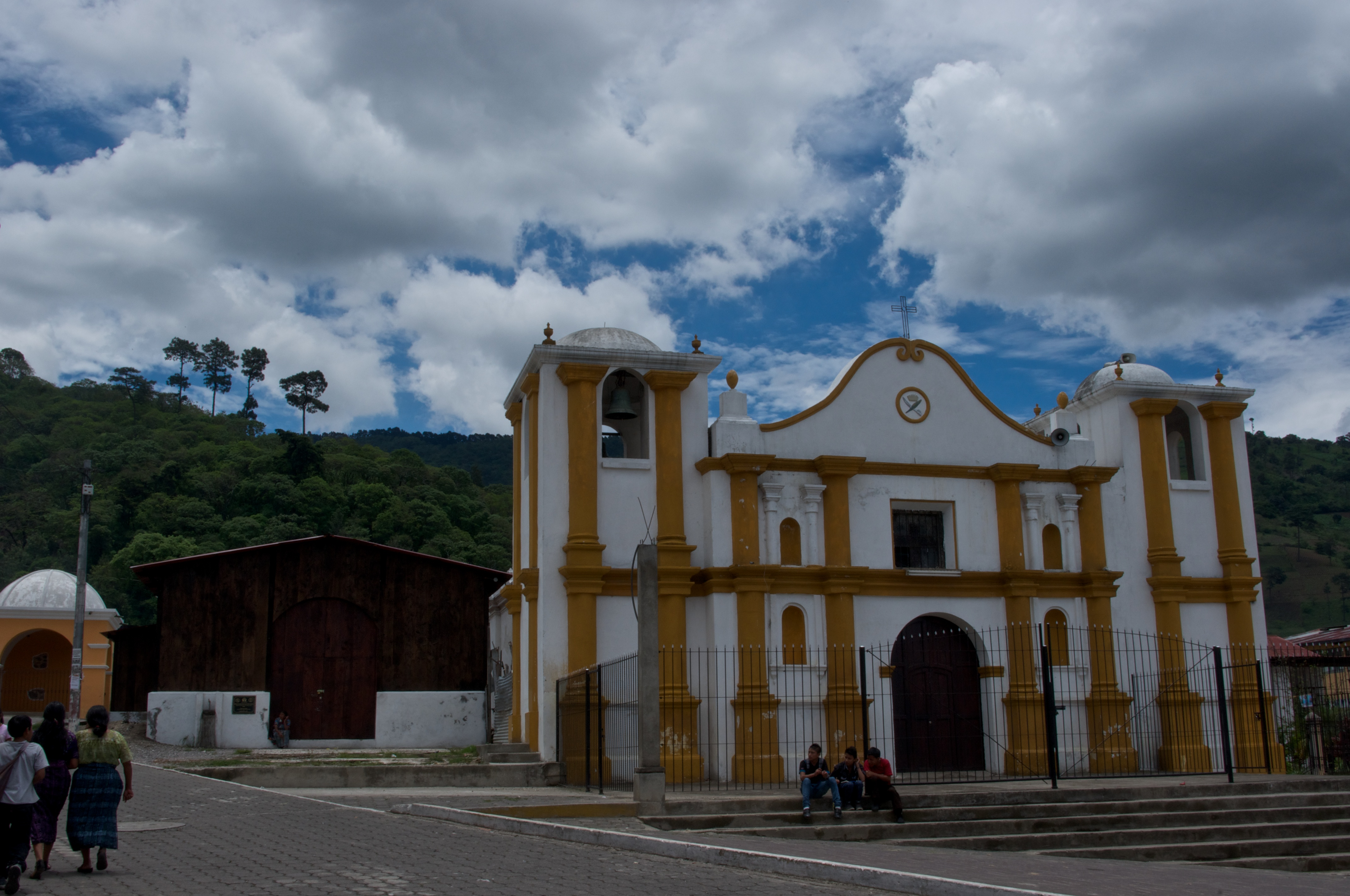 Church of Santa Catarina Barahona